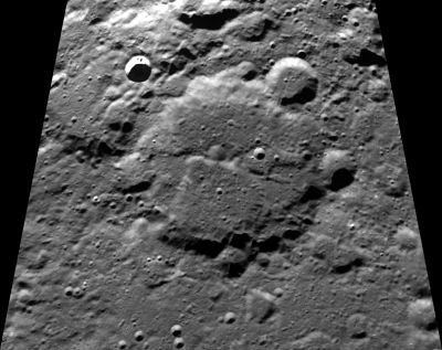 Seares lunar crater - Clementine image.